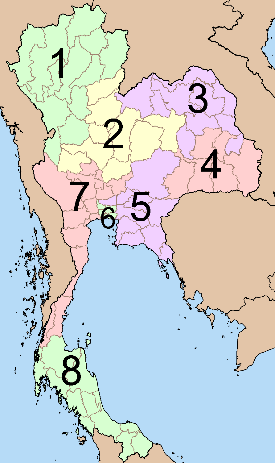 Map of Thailand with the electoral areas for the 2007 general elections